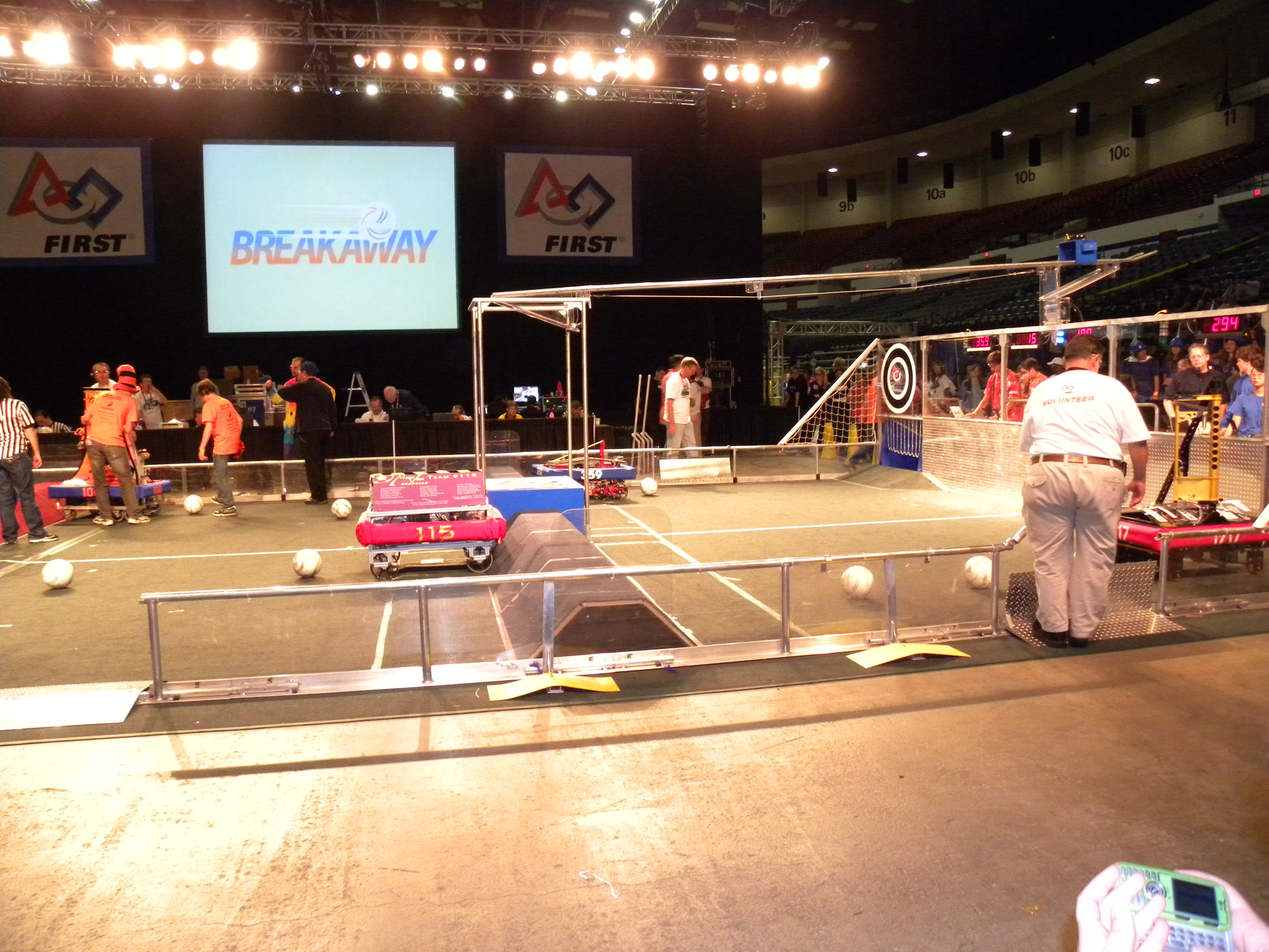 Robots at set position, 2010 FIRST Robotics Regional in San Diego